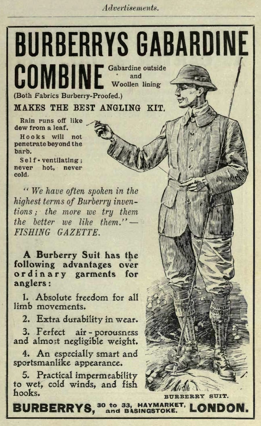 Burberry advertisement from Dry Fly Fishing for Trout and Grayling, London, 1908.